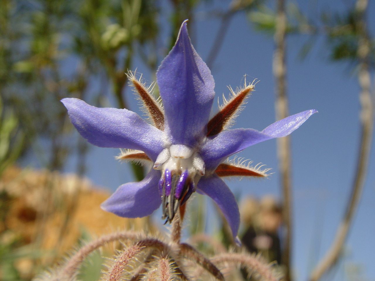 Name Borago officinalis Familiy Boraginaceae